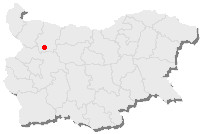 Map of Bulgaria, the red point is the position of Mezdra.